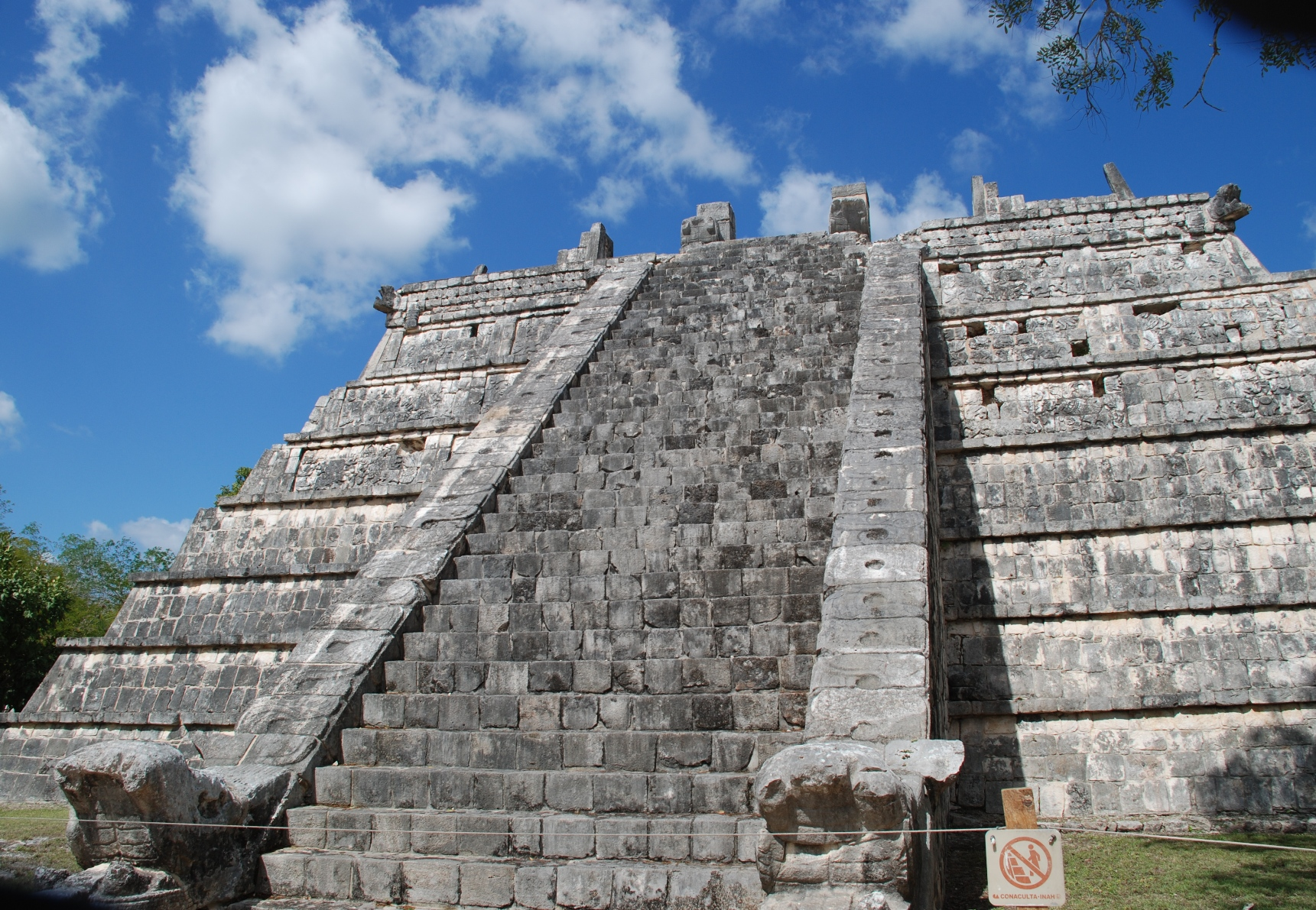 Ossuary in Chichén Itzá